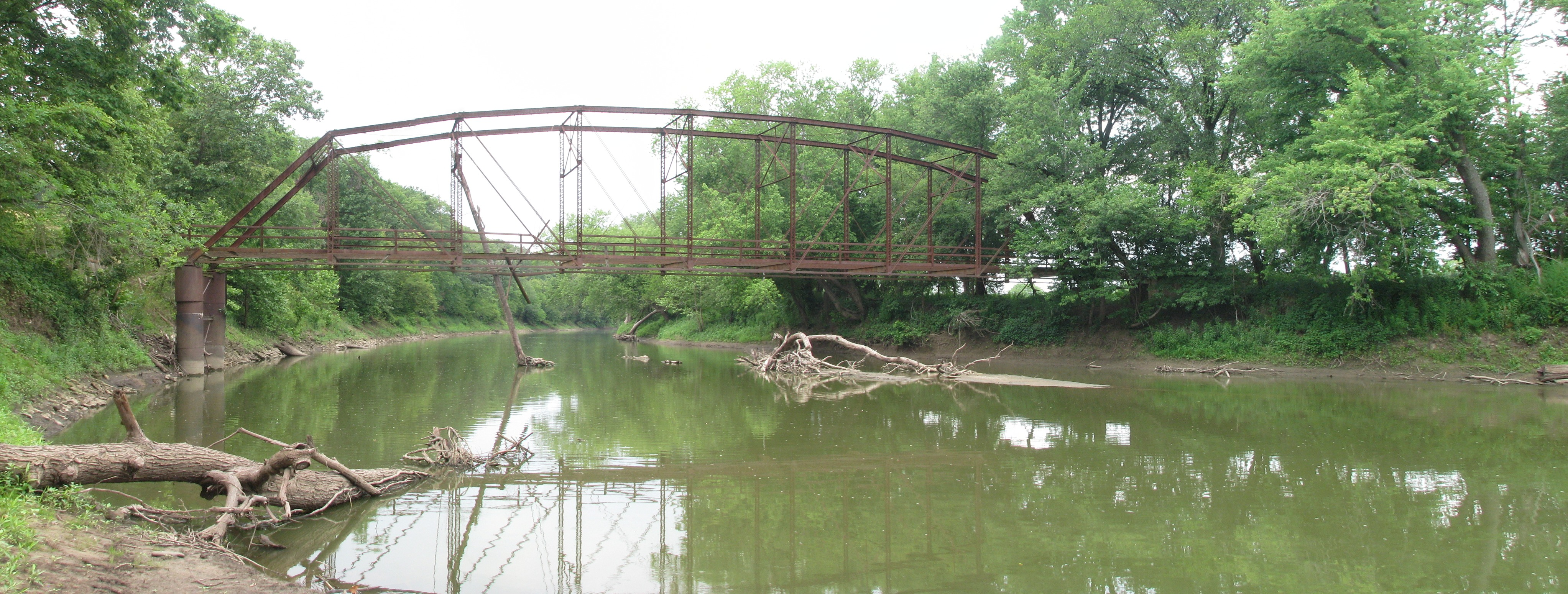 Facing west, a panorama view of the Parker through truss bridge that once carried Tarter Ferry Road over the Spoon River.